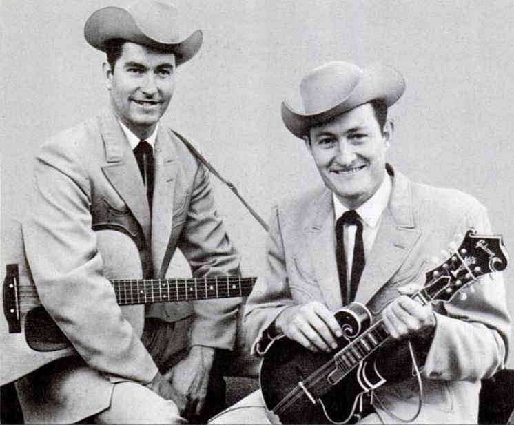 Trade ad for Jim & Jesse's single "Memphis" / "Maybellene".To better adapt it to his respective Wikipedia article, the ad was cropped and cleaned in a graphics editing program. The original can be viewed at the source below.